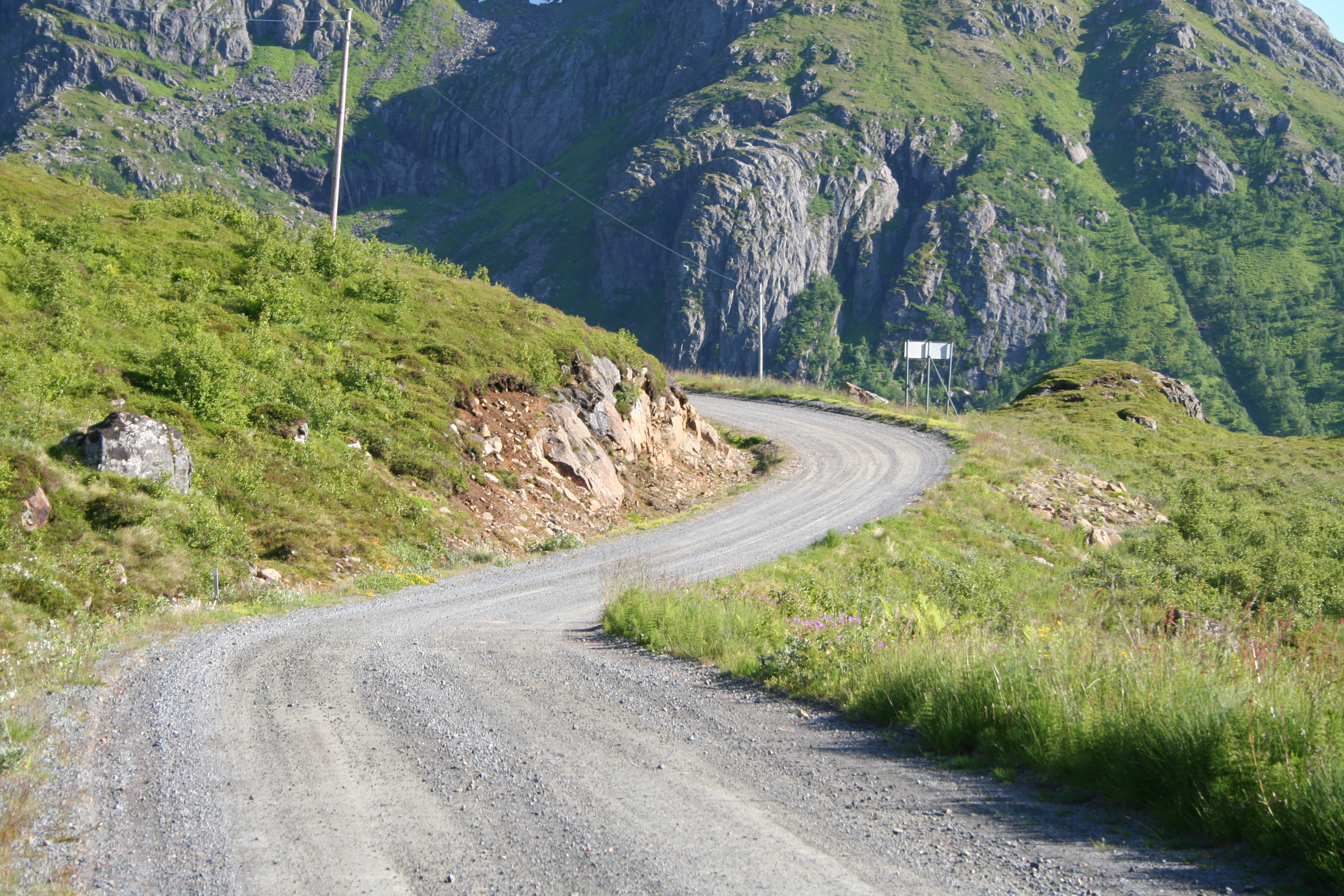 Road near Utskor in Bø, Nordland, Norway